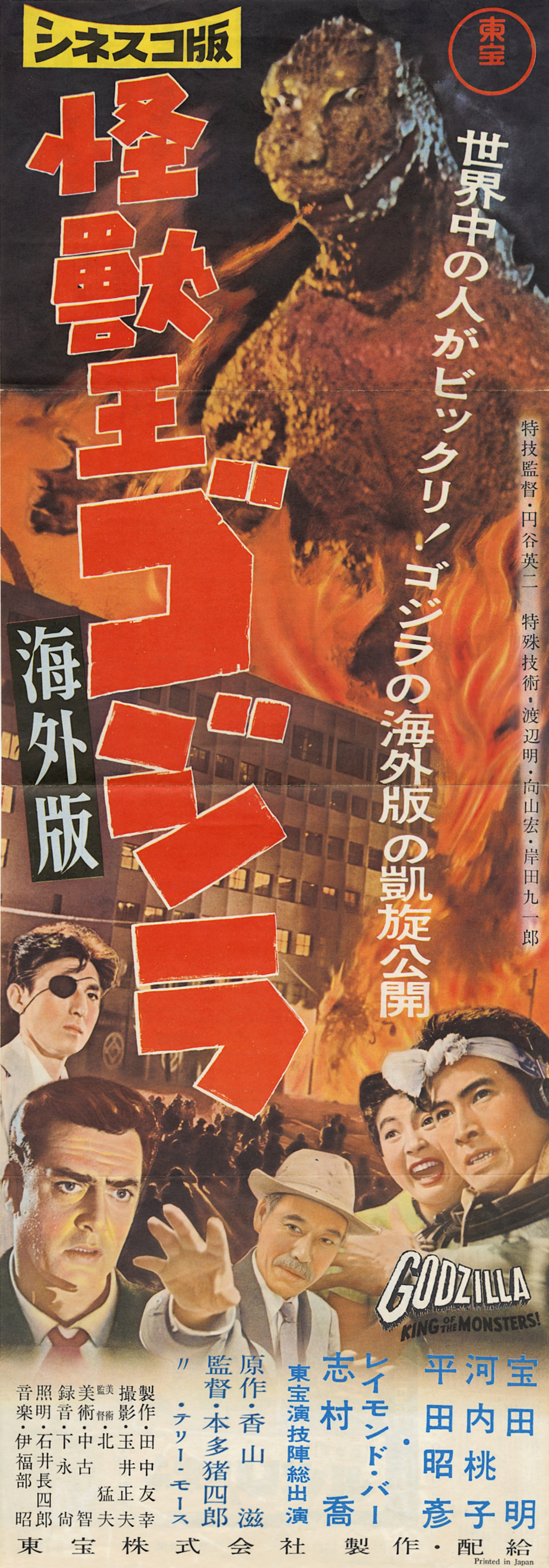 1954 Japanese movie poster for 1954 Japanese film Godzilla.